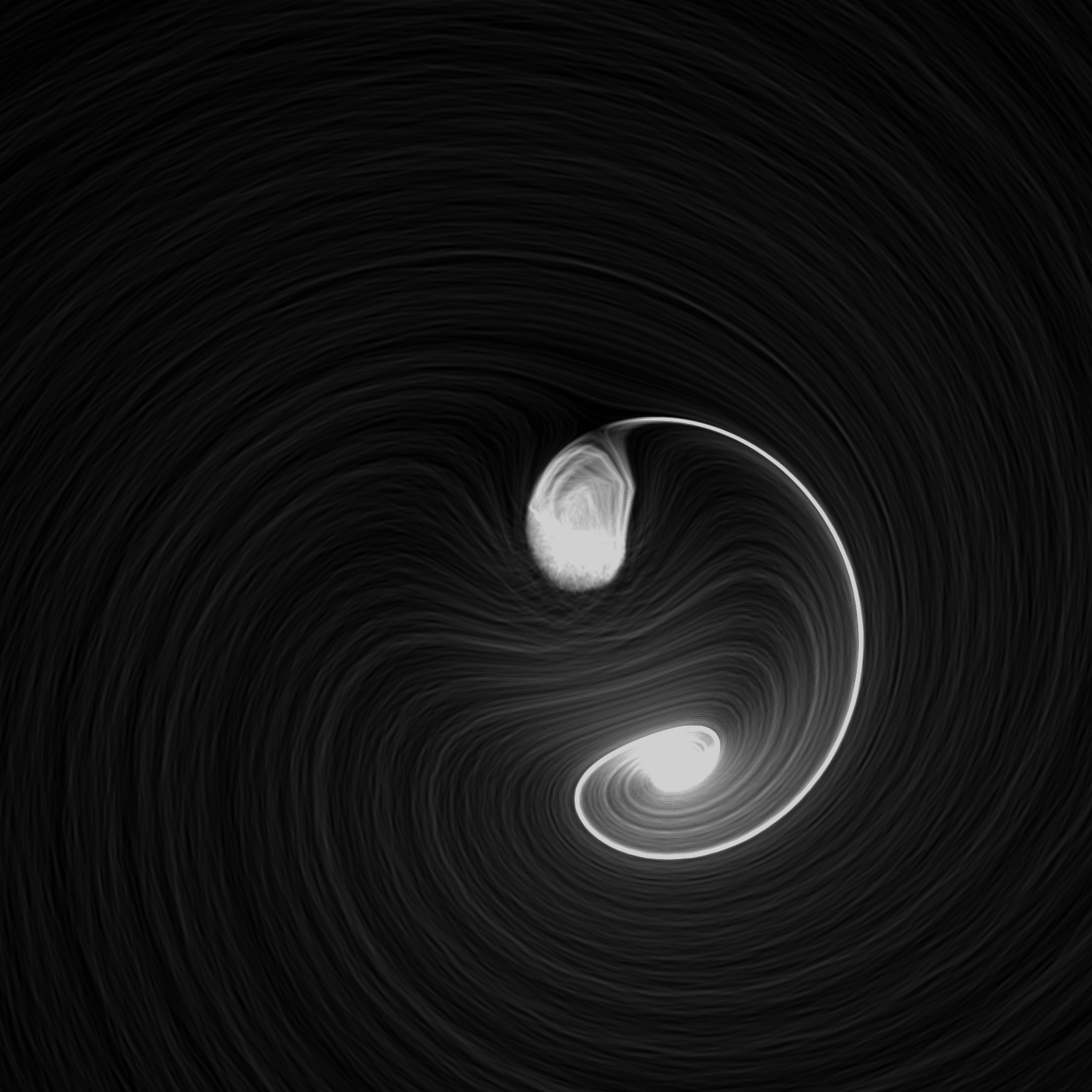 A plot of 2000 random trajectories in the Ikeda map. This is a closeup of the attractor.